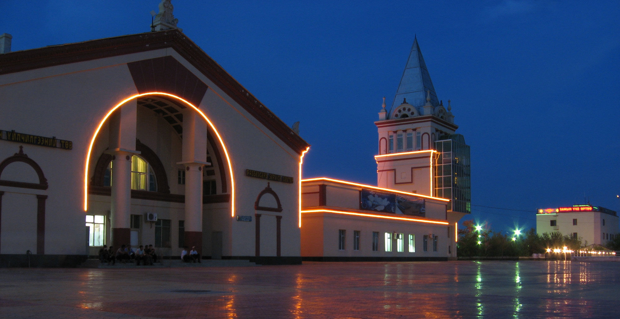 Zamyn Üüd train station, Mongolia